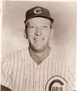 An early 1960s Houston Colt 45's press photo of Al Heist, who was drafted by the team in 1962. The website also shows the information about Heist in the back of the photograph (which I can upload in request), and without a copyright notice. A check of several other pictures doesn't include copyright notices. It is therefore presumed the entire Colt 45s press kit is PD not renewed/PD no copyright 1978.